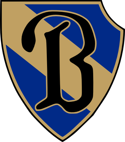 Logo of SV Blitz 1897 Breslau, German football team.